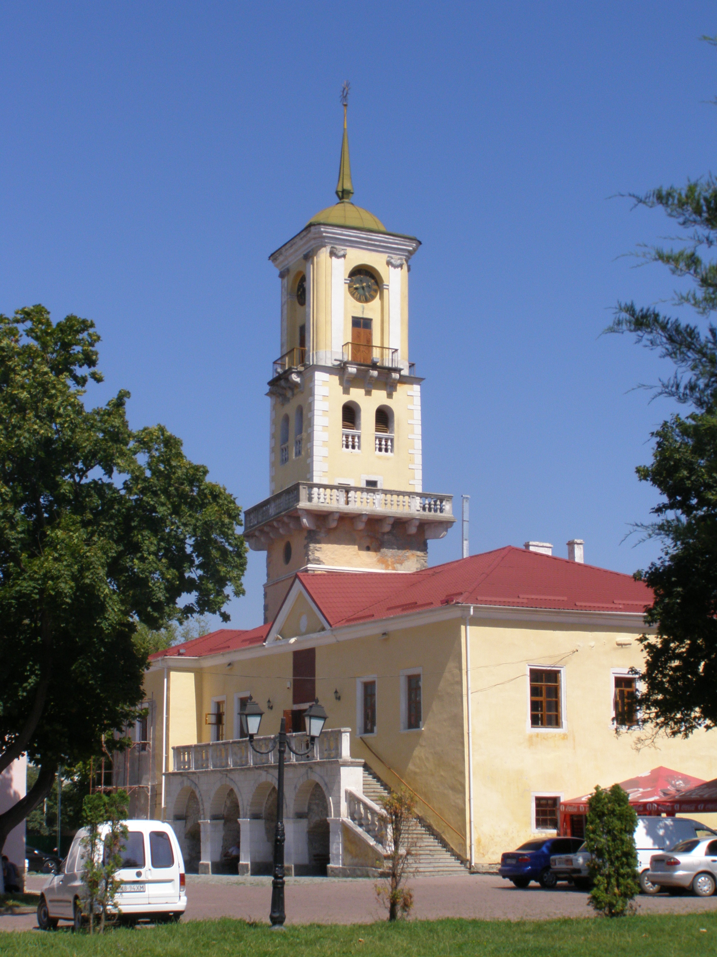 Kamianets-Podilskyi, Town Hall